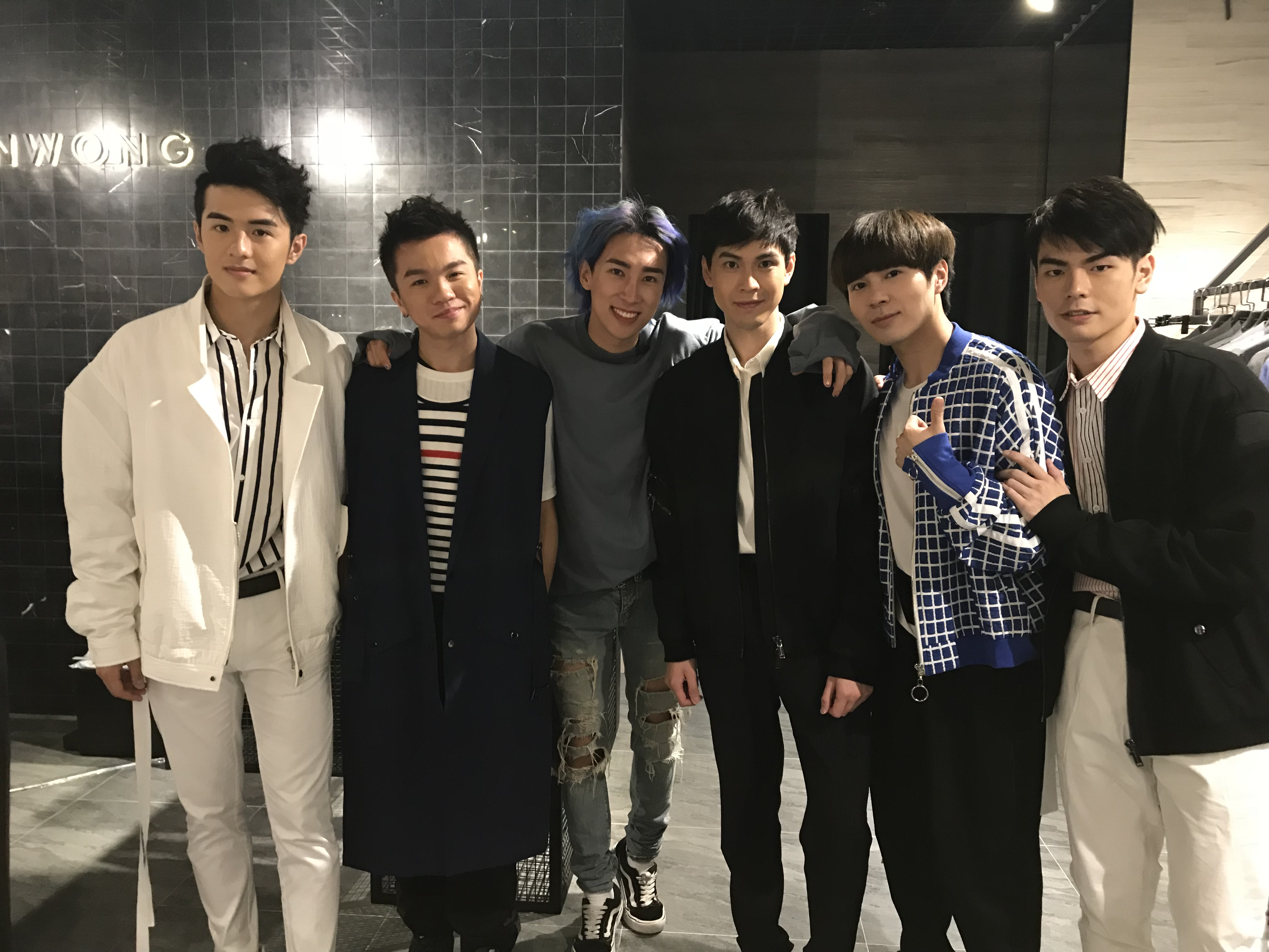 電視節目活動照片